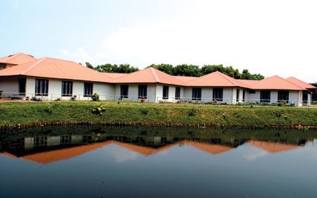 The old campus of Indian Institute of Space Science and Technology